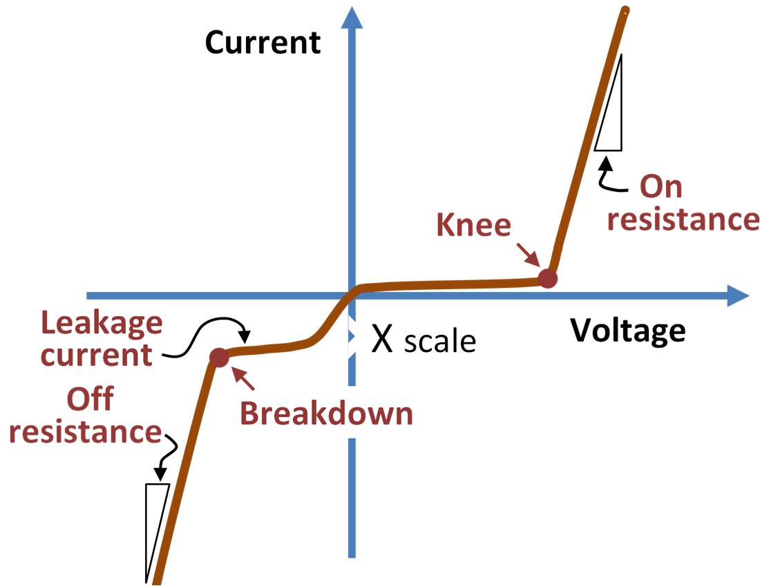 Non-ideal pn-diode dc current-voltage curves